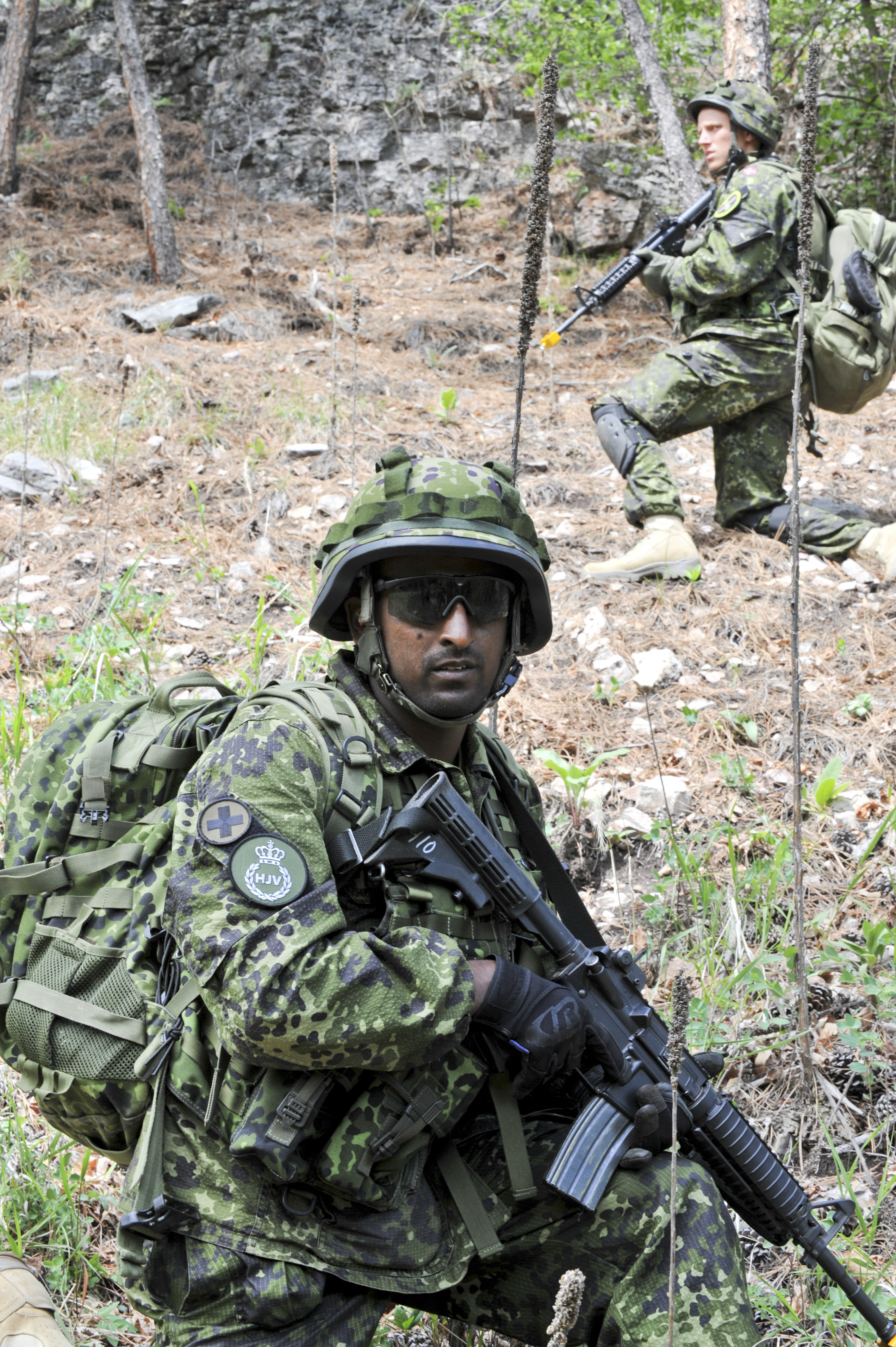 Pvt. Suthan Kulasingam, a medic with the Danish Home Guard, provides security at a combat patrol training exercise at West Camp Rapid during the South Dakota National Guard's Golden Coyote training exercise June 12, 2012. The Danish Home Guard is participating in the annual training exercise for the first time this year developing individual and collective team skills to help meet mission readiness requirements.